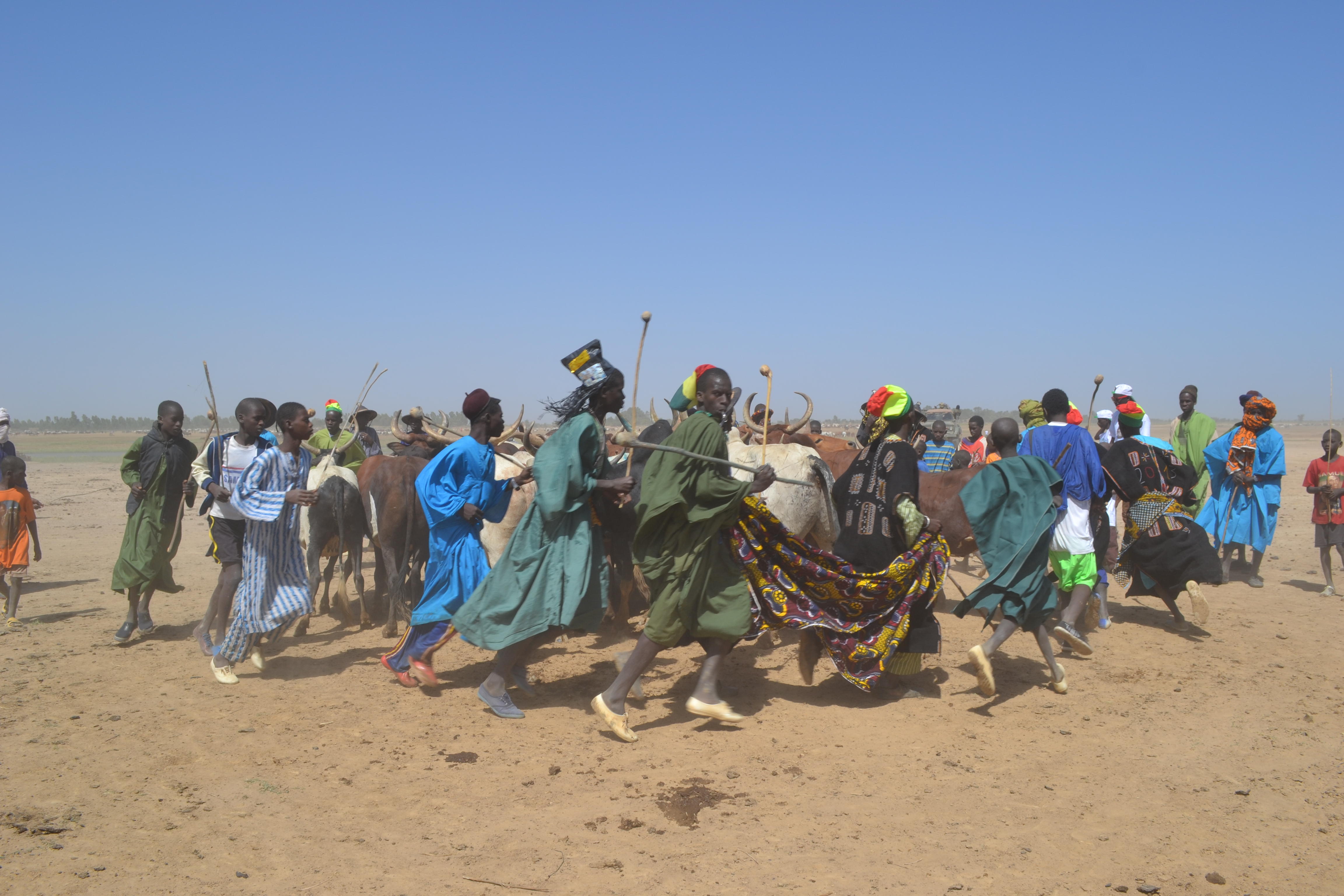 This picture shows foulany dansing around cows in Mali Bamanankan: Nin ja in bɛ fulaw dɔkɛtɔ jira u ka misiw dafɛ Mali la This is an image from Mali